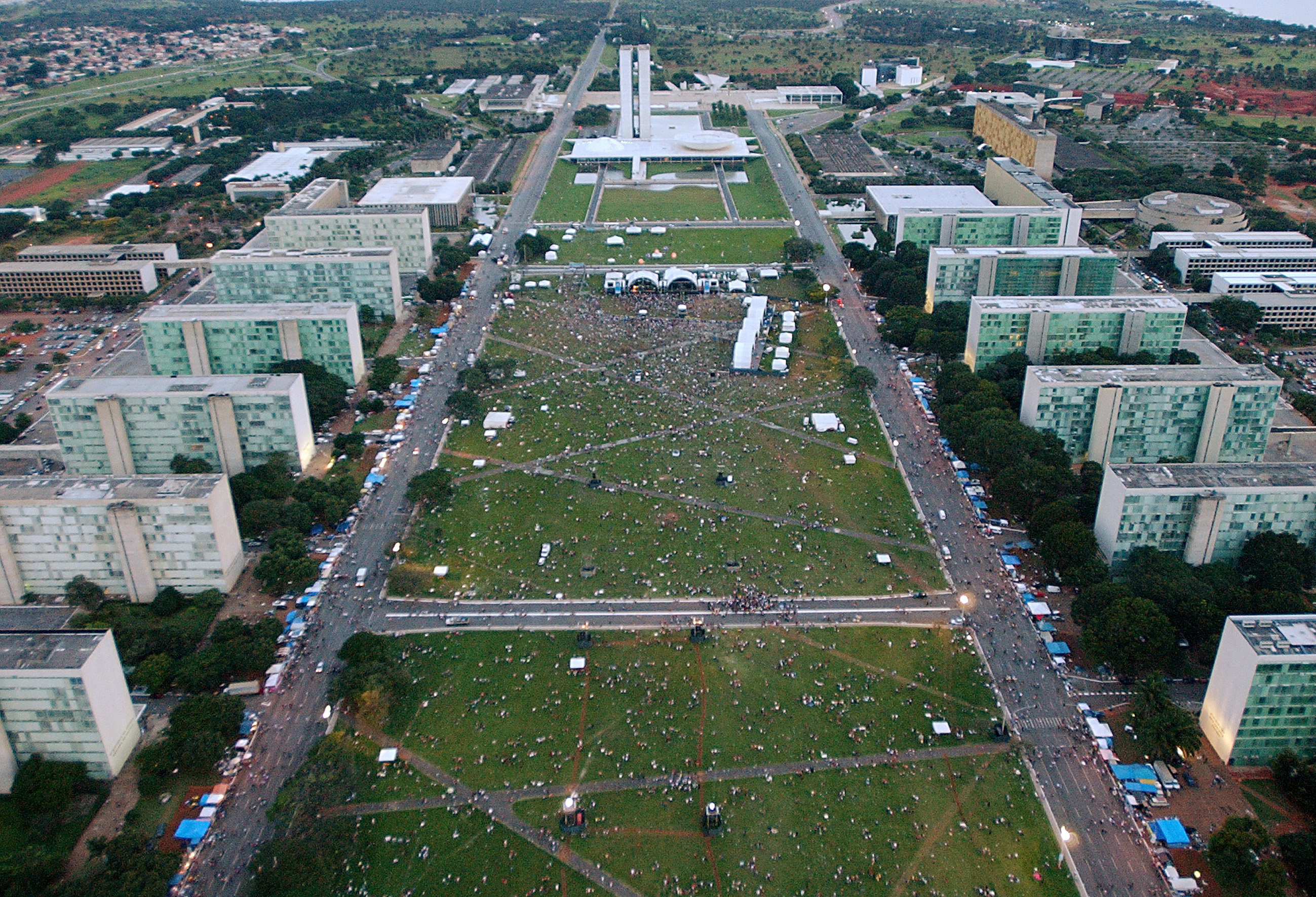 Thousands of people gather at the Esplanada dos Ministérios (Ministries Esplanade) to celebrate the city's 48th anniversary.